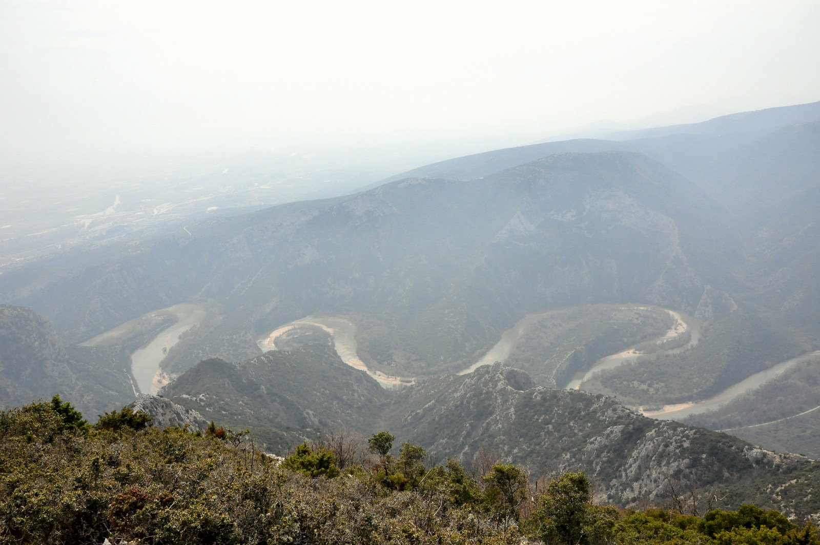 Nestos River, near the Stathmos, Xanthi prefecture, Greece